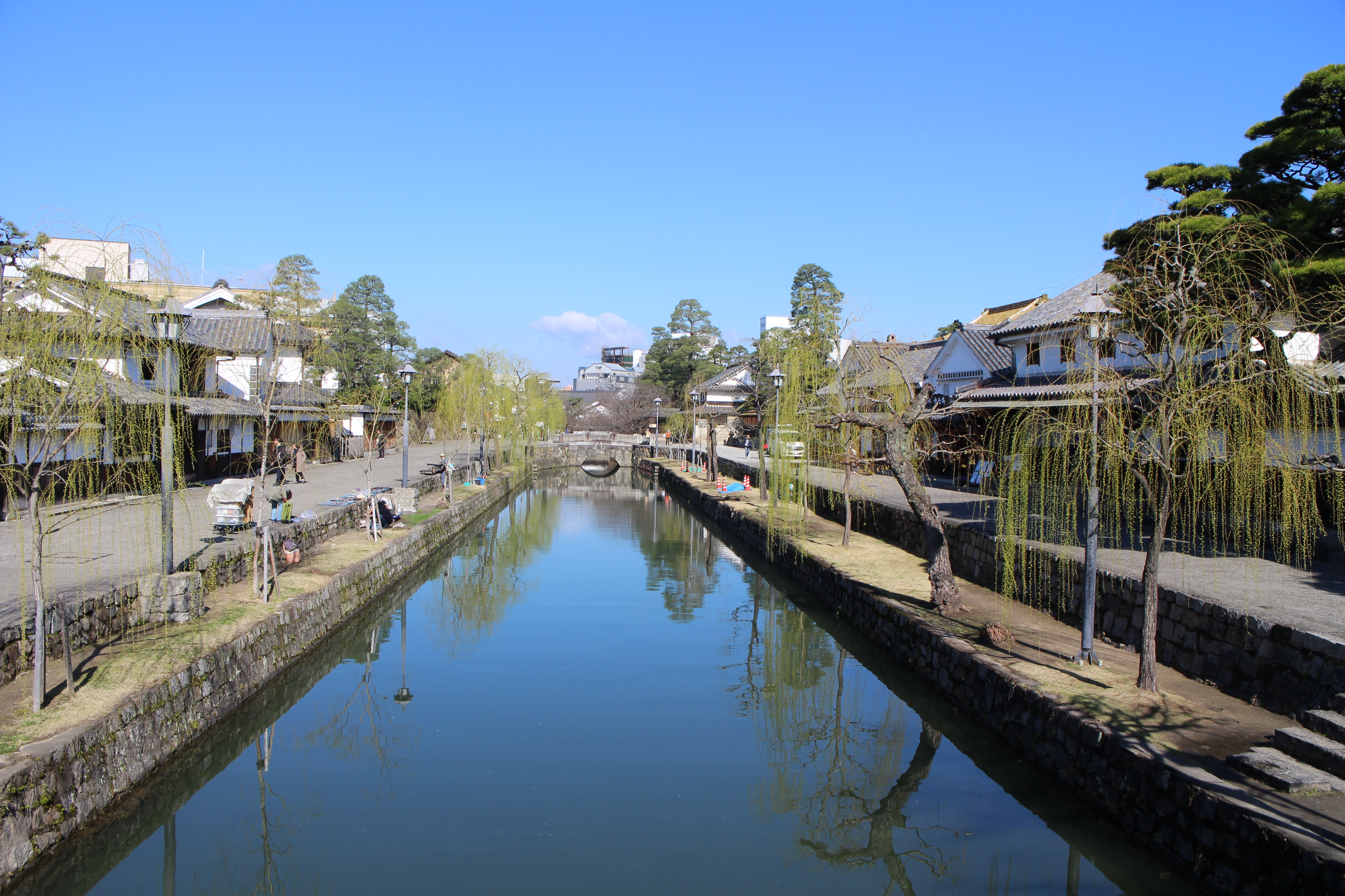 Kurashiki Bikan historical quarter